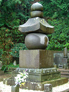 Ninshōtō (or Ninshoto), the largest gorintō in Kamakura